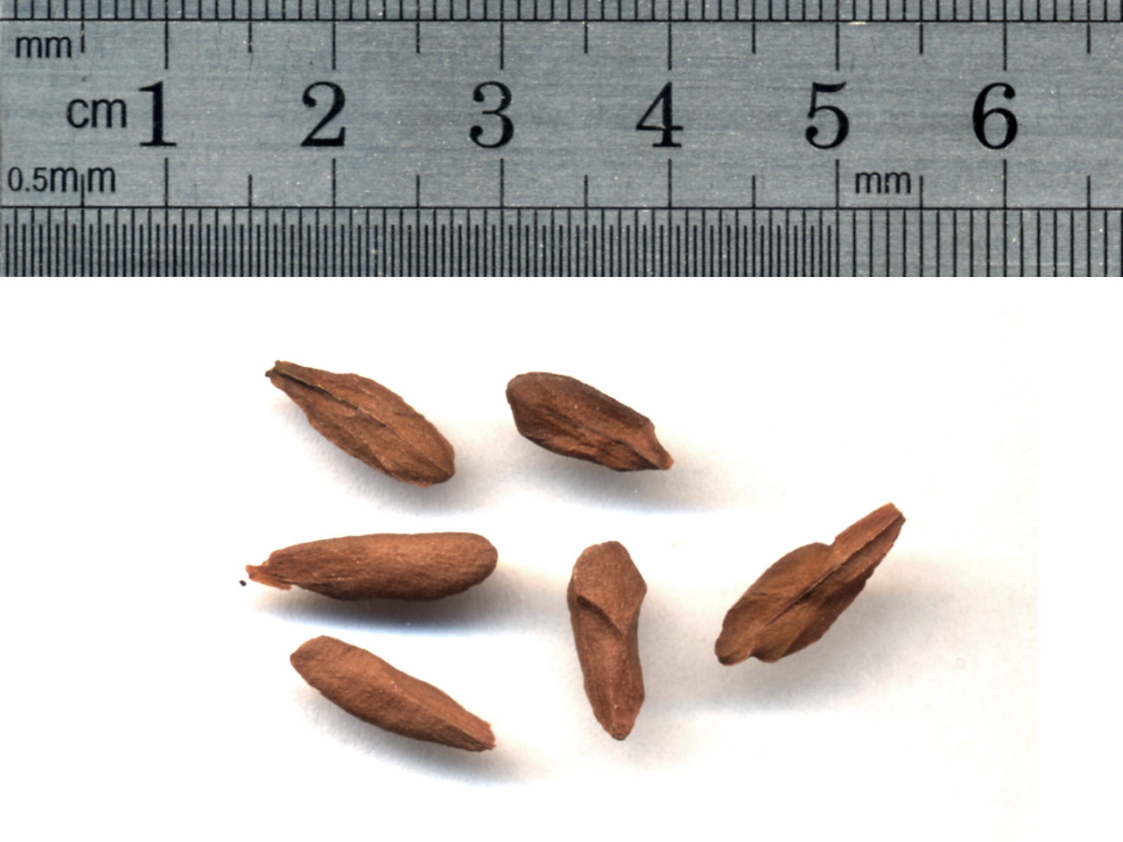 Seeds of Petopentia natalensis scanned with size information